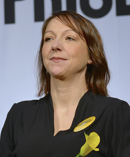 Nominated for the August Prize 2014.